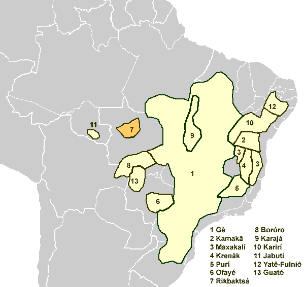 Rikbaktsá language (orange), (probable spread area at the time of contact) Source: Ribeiro, Eduardo & Van der Voort, Hein (2010) “Nimuendajú was right: The inclusion of the Jabuti language family in the Macro-Jê stock”, International Journal of American Linguistics, 76/4.